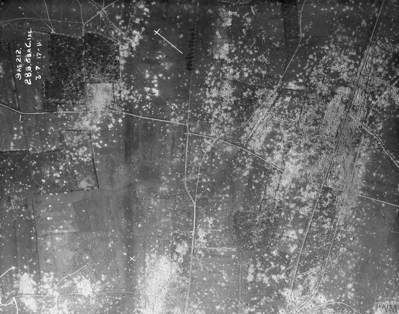 Aerial reconnaissance photo of Pilckem Ridge, just prior to the Battle of Pilckem Ridge. Imperial War Museum description: Plotting reference: 28B 6bd 28C 1ac Key feature: Crossroads West of Pilckem